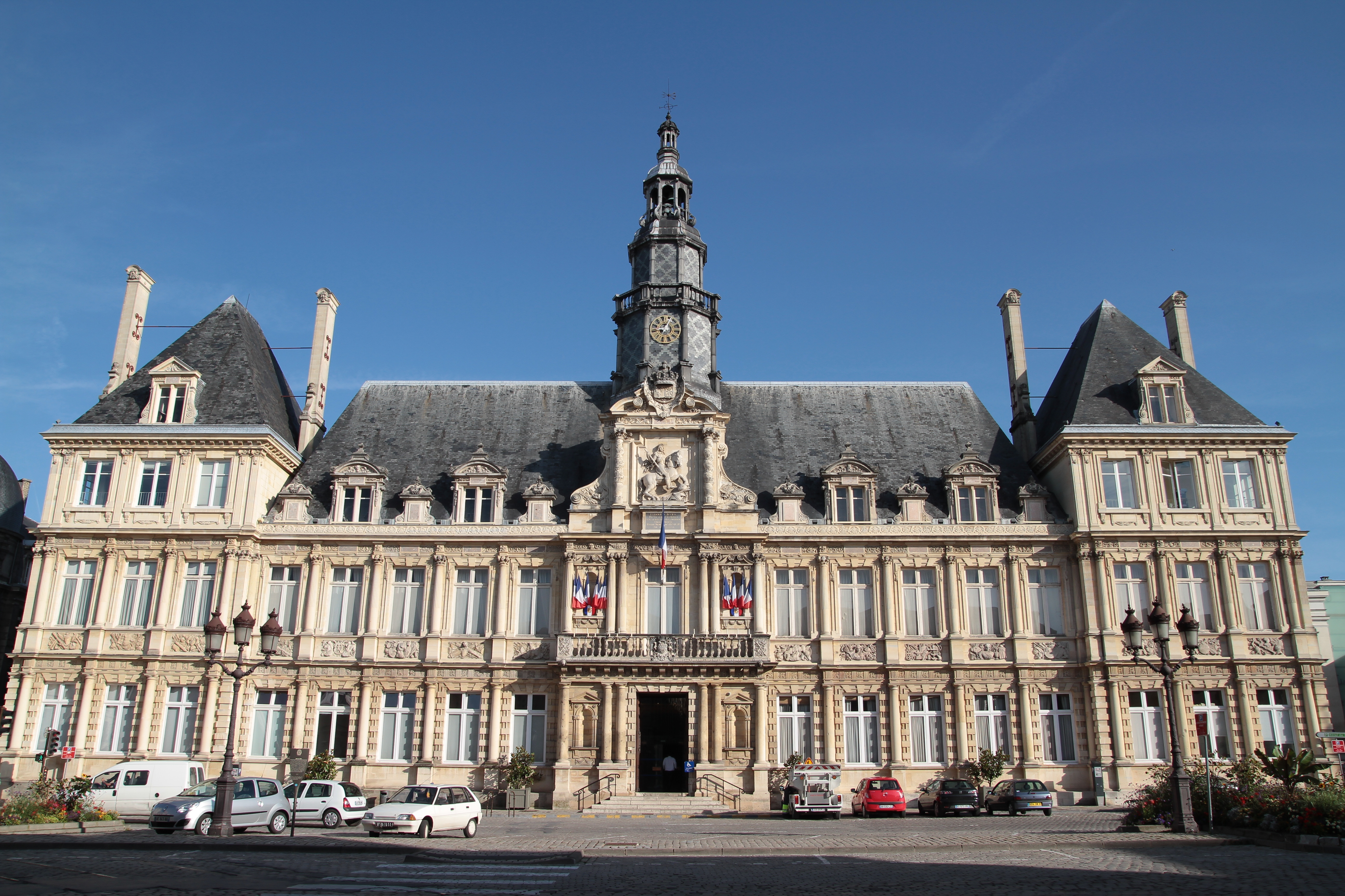 City hall of Reims (France)